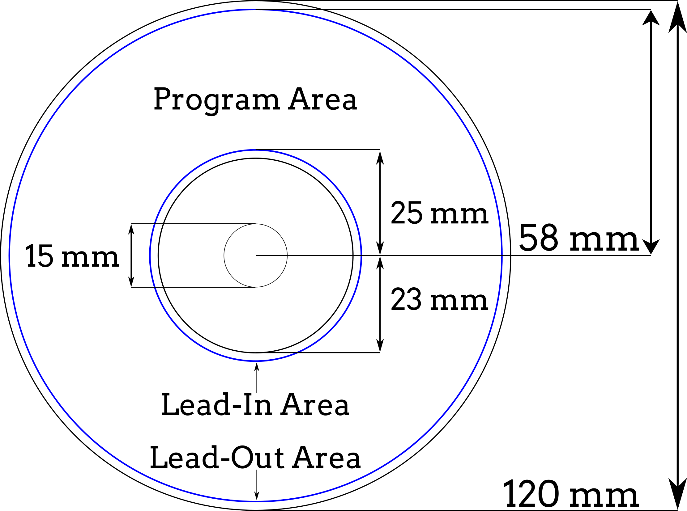 Radius 22-23mm: Inner buffer zone. Radius 23-25mm: Lead-in area. Radius 25-58mm: Program area. Radius 58-58.5mm: Lead-out area. Radius 58.5-59mm: Outer buffer zone. Radius 59-60mm: Rim area. Created by Wellington T. Uemura. Old illustration from Disctronics used as reference.